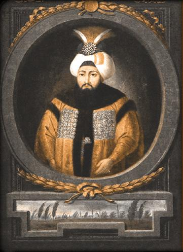 Osman III